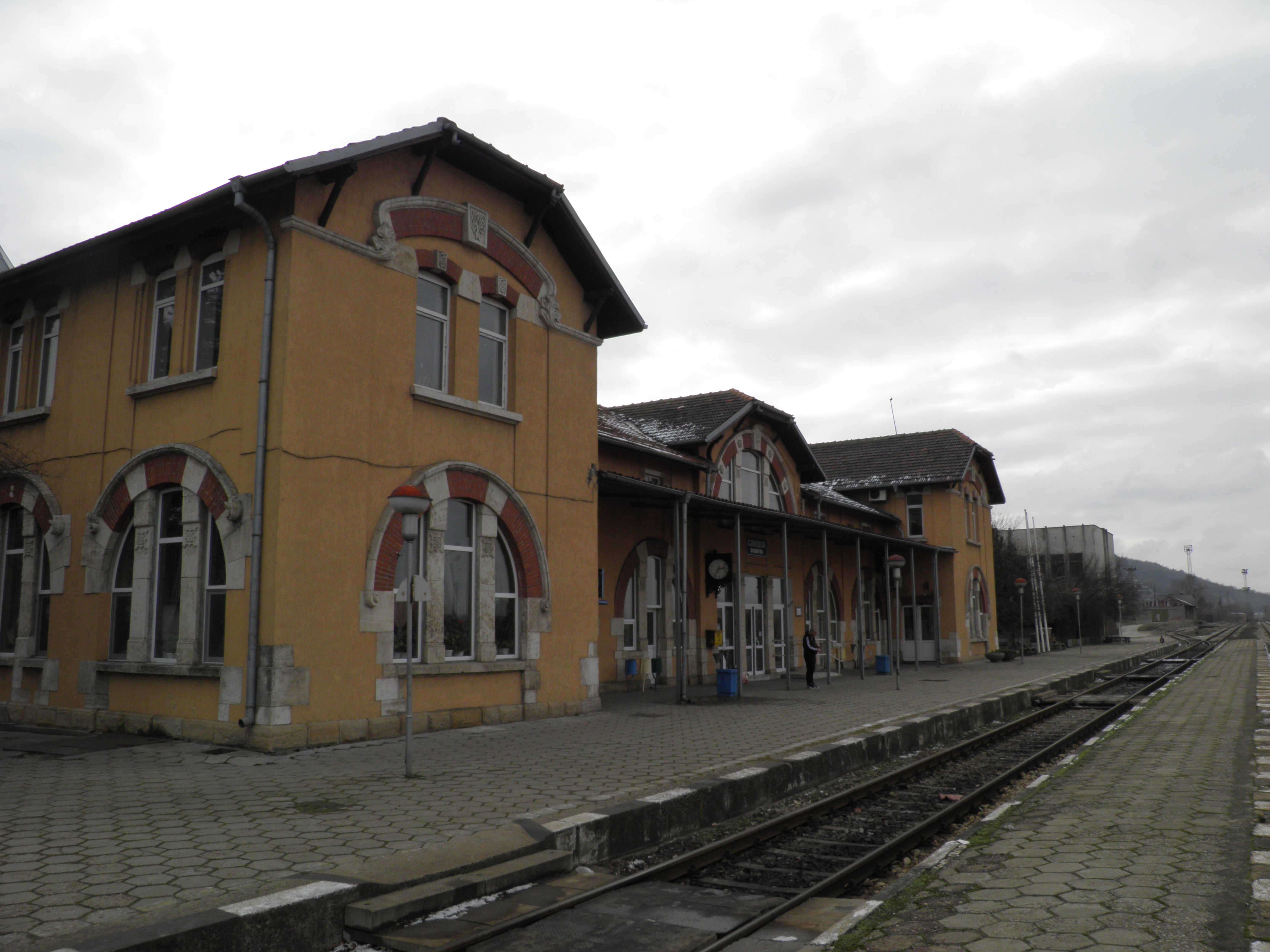 Rail station in Svishtov,Bulgaria